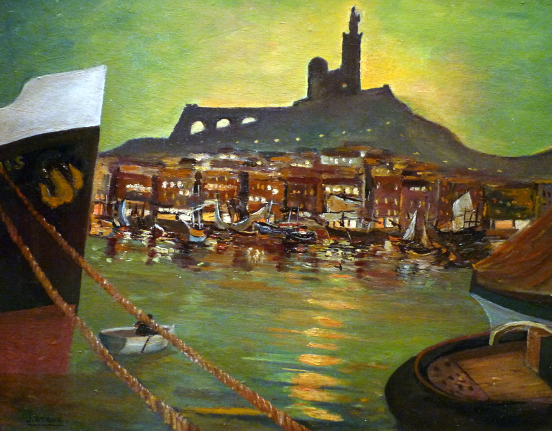 Oil painting on wood panel. Original work of Jean Roque